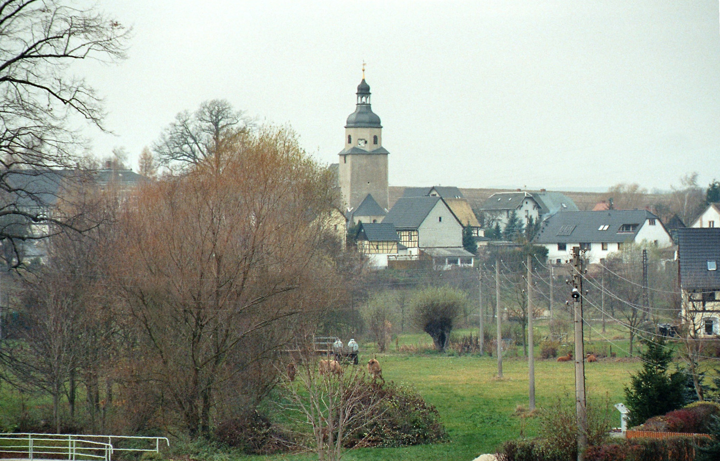 Vollmershain, view to the village church